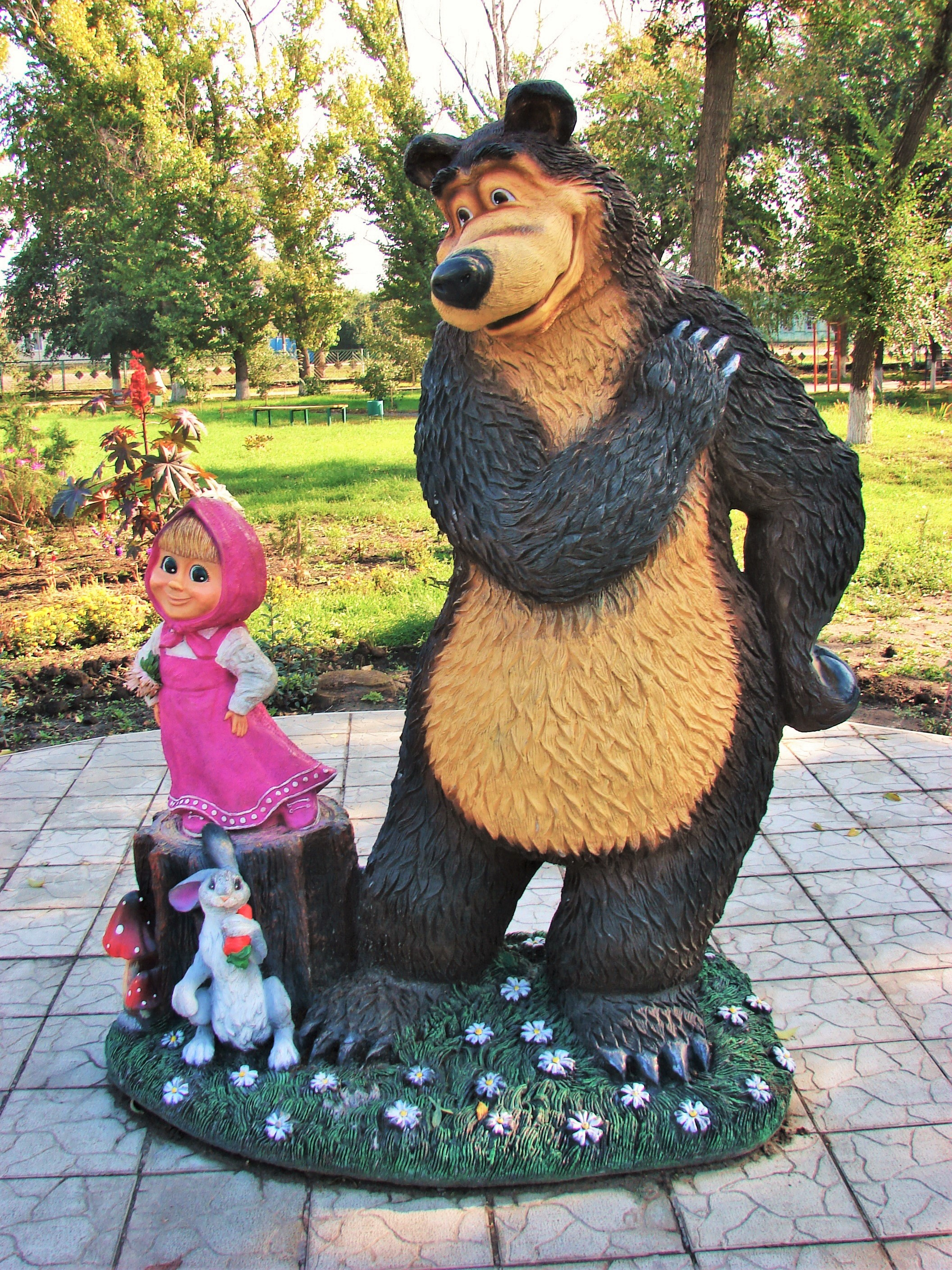 A sculpture of the main characters from the Masha and the Bear animated series in Yelan (Volgograd Oblast)